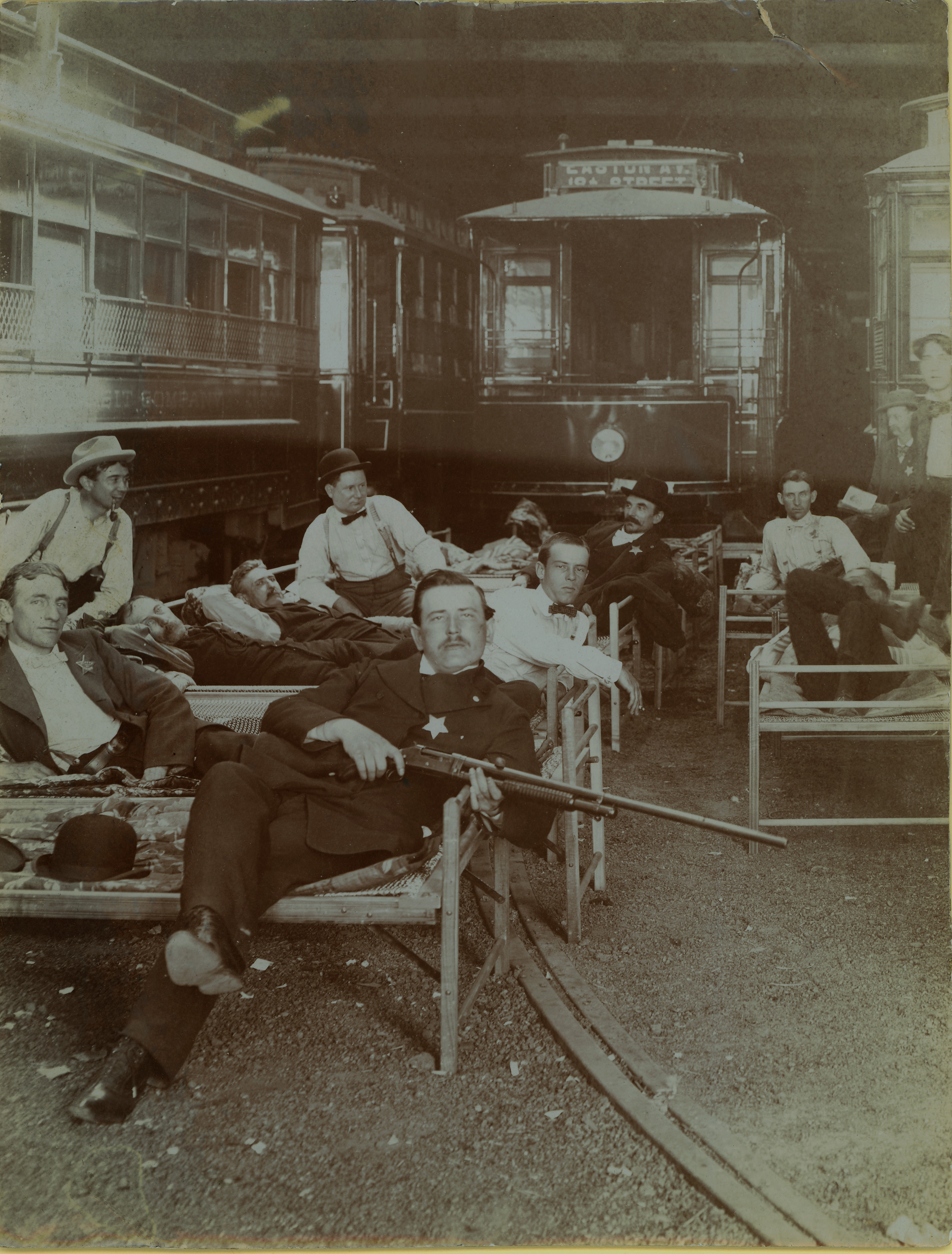 Title: Posse members resting on cots in the United Railway car barn during the Streetcar Strike of 1900.